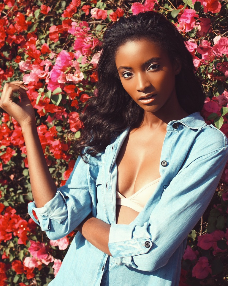 Lyndsey Scott @lyndsey360 – A top model, actress, and computer programmer is someone I couldn’t resist featuring. As we walked around my neighborhood and across the street to CBS studios, we’d occasionally stop for a photo op. Los Angeles, California.